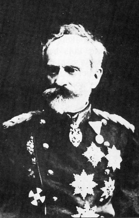 František Zach, a Czech general in Serbian army.